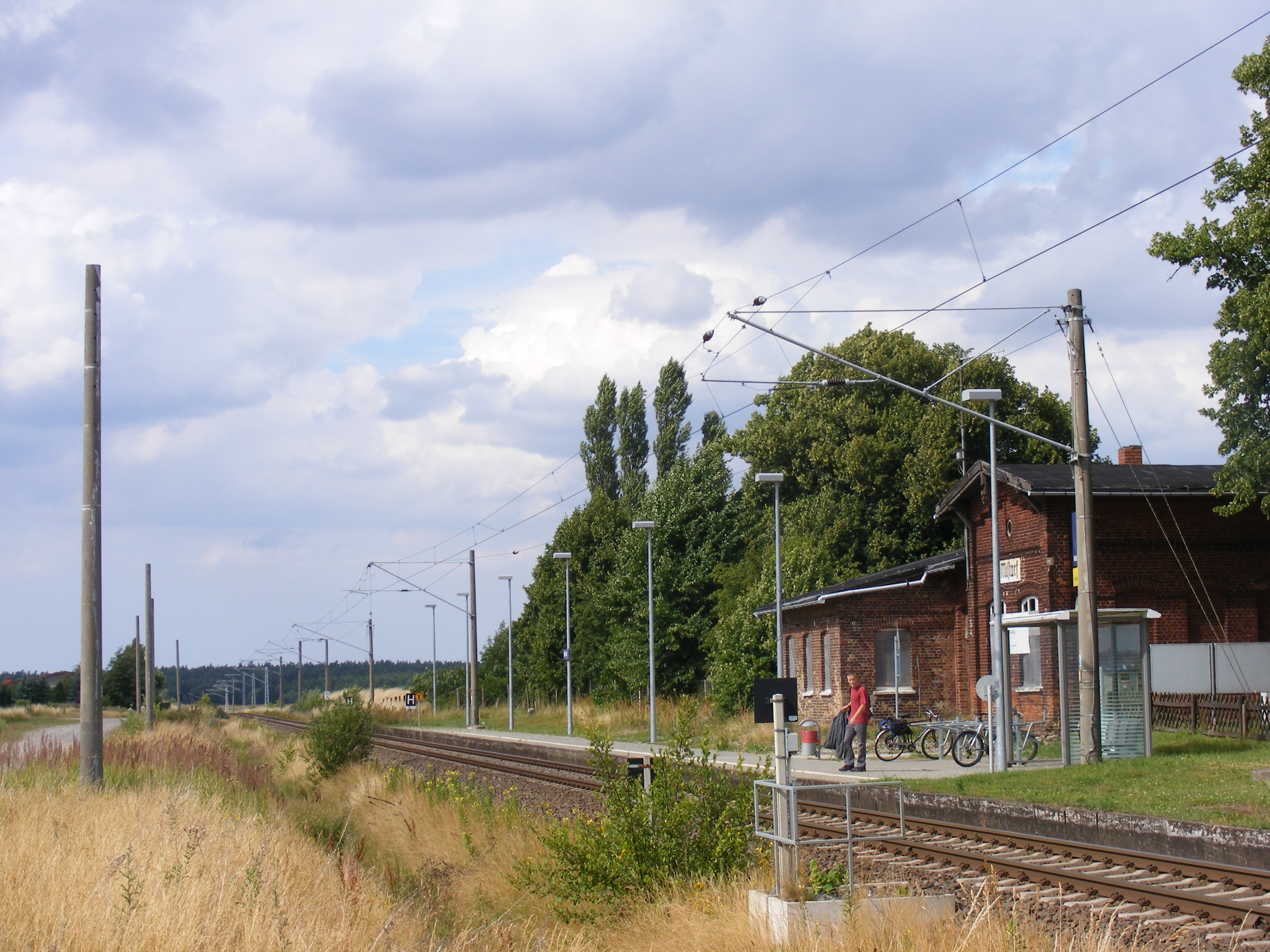 Mistorf railway station between Güstrow and Rostock in Mecklenburg-Vorpommern, Germany